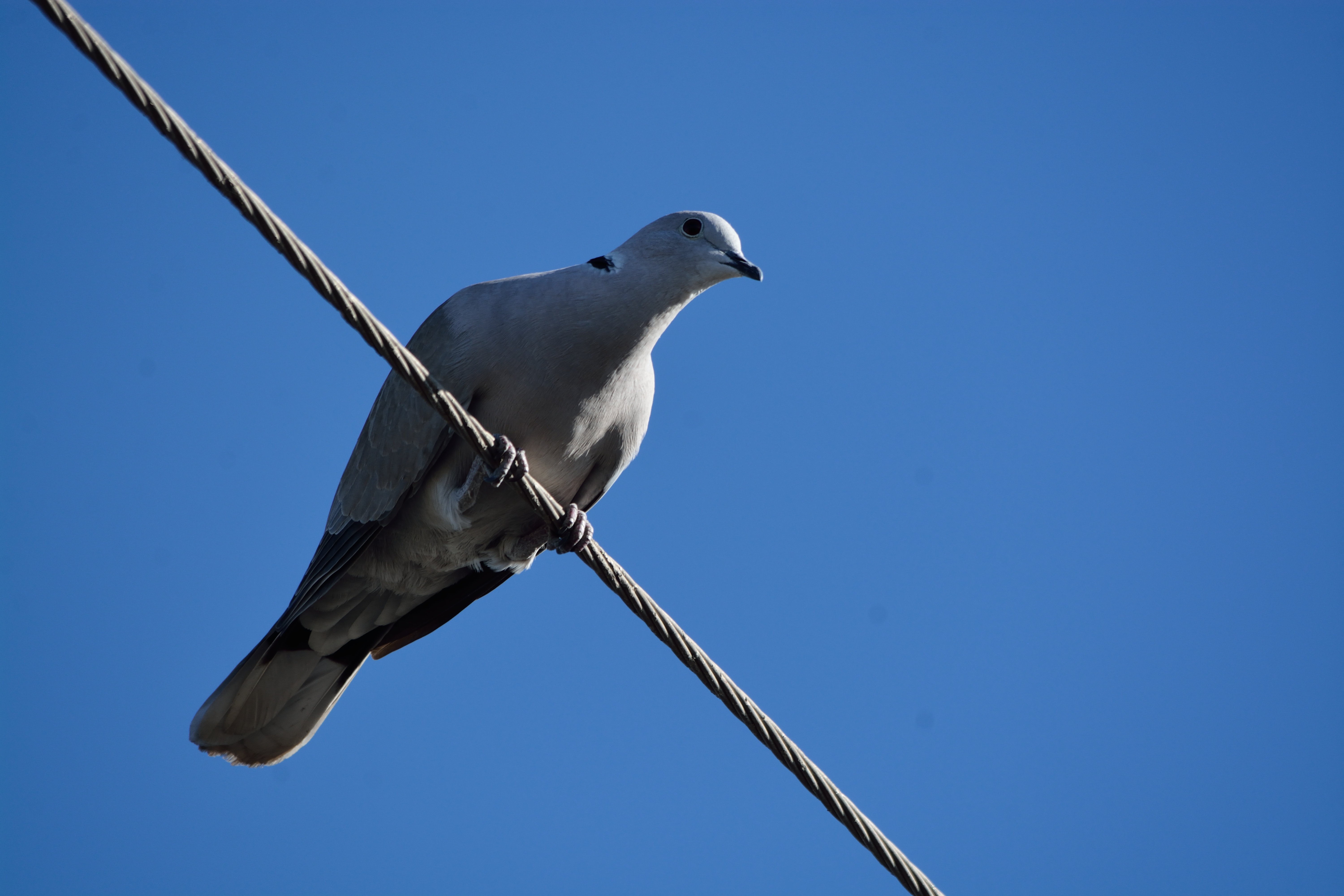 A collar dove in Hermosillo, Sonora, México